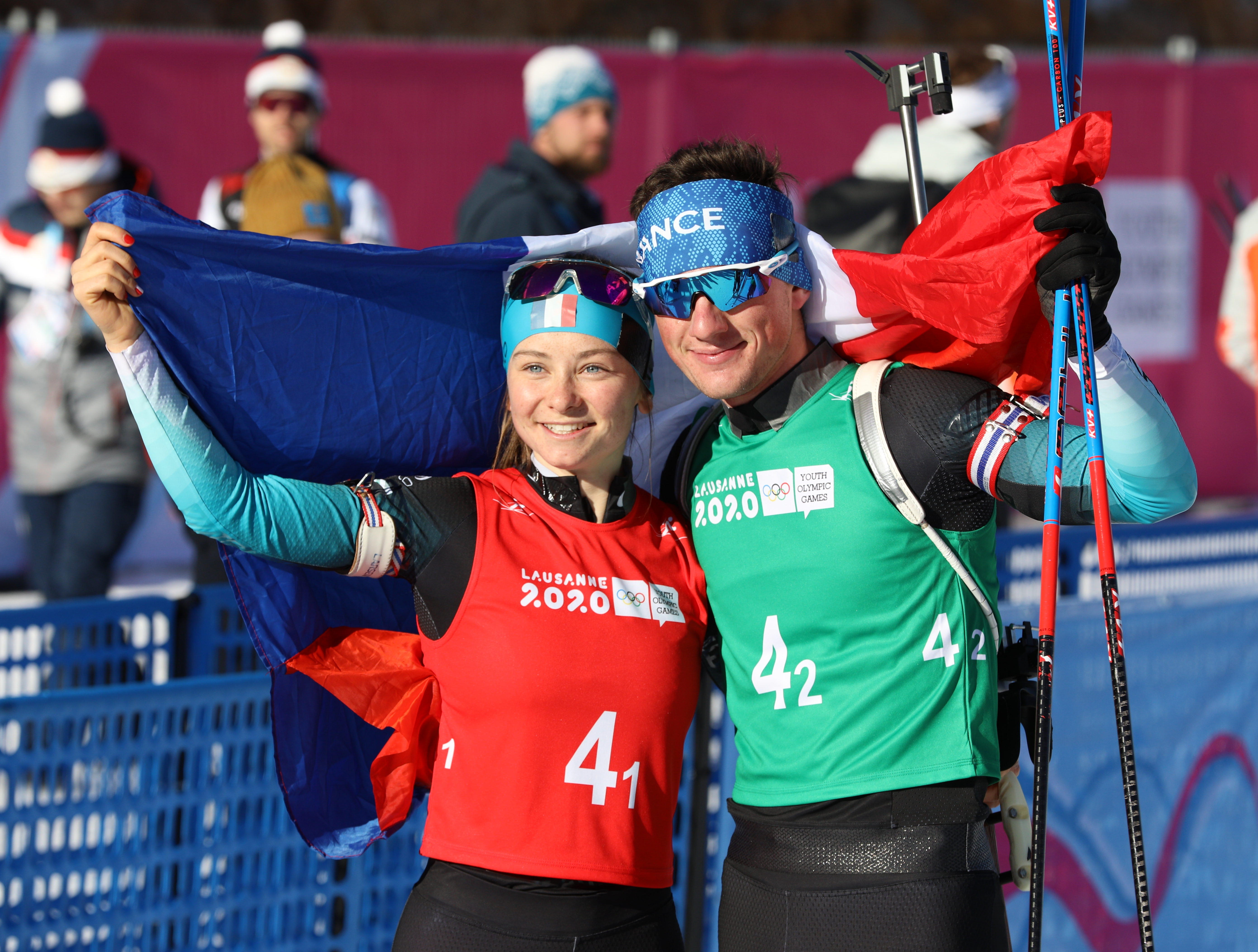 Biathlon Single Mixed Relay at the 2020 Winter Youth Olympics in Lausanne